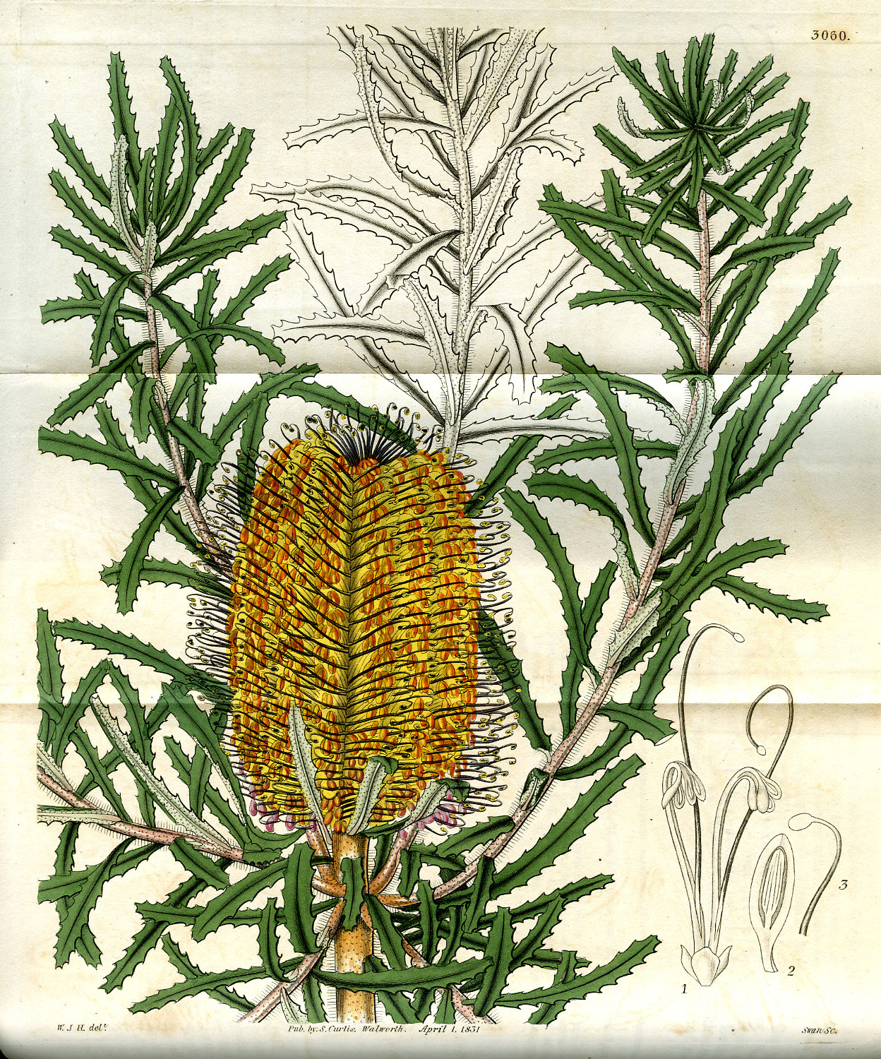 Digital image of a plate illustrating Banksia littoralis.